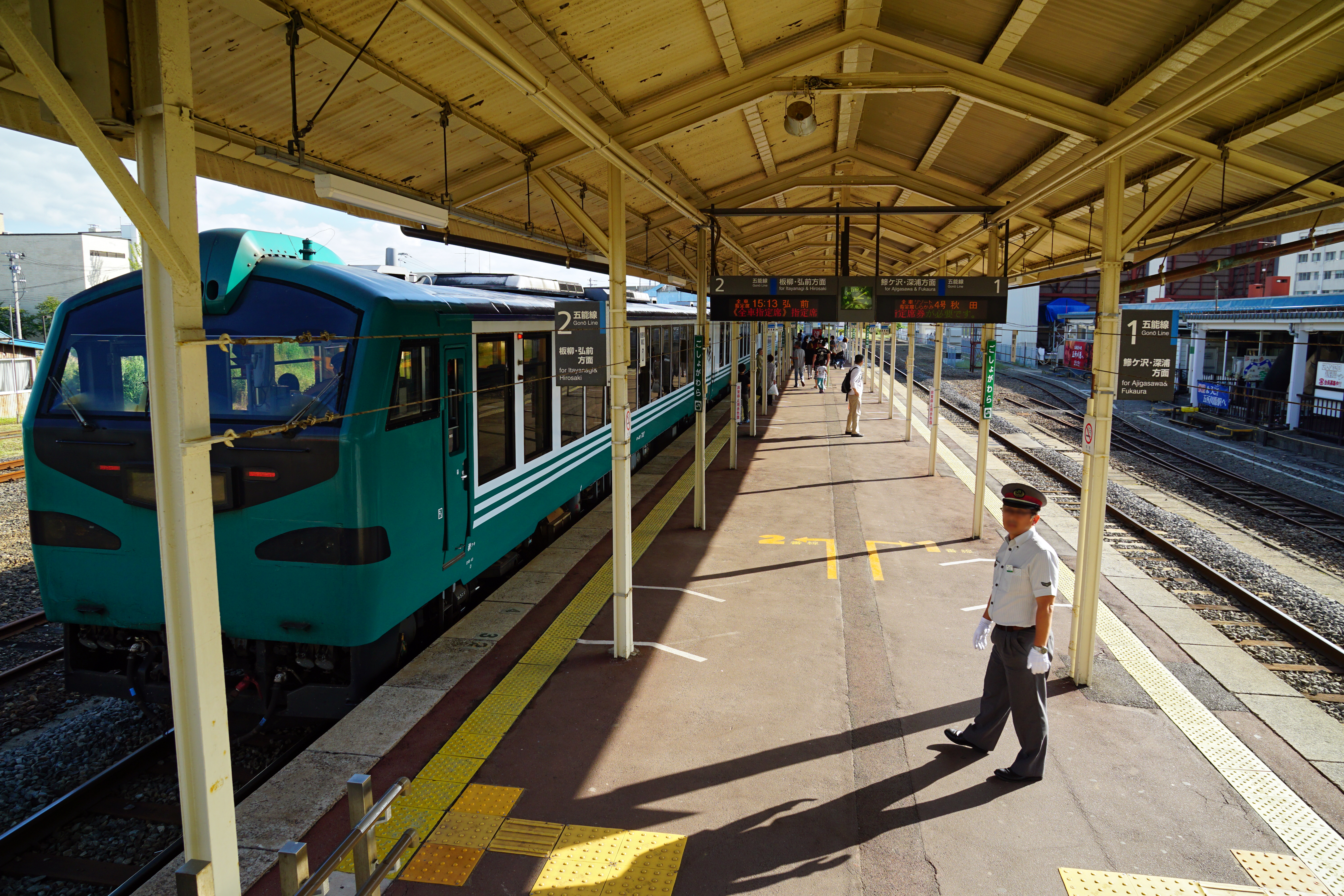 Goshogawara Station in Goshogawara, Aomori prefecture, Japan.